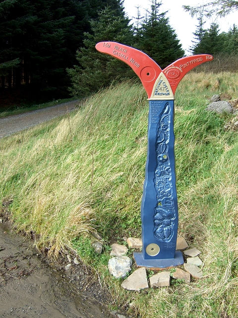 National Cycle Network 47 marker, Gwaun Blaencorrwg, south Wales.